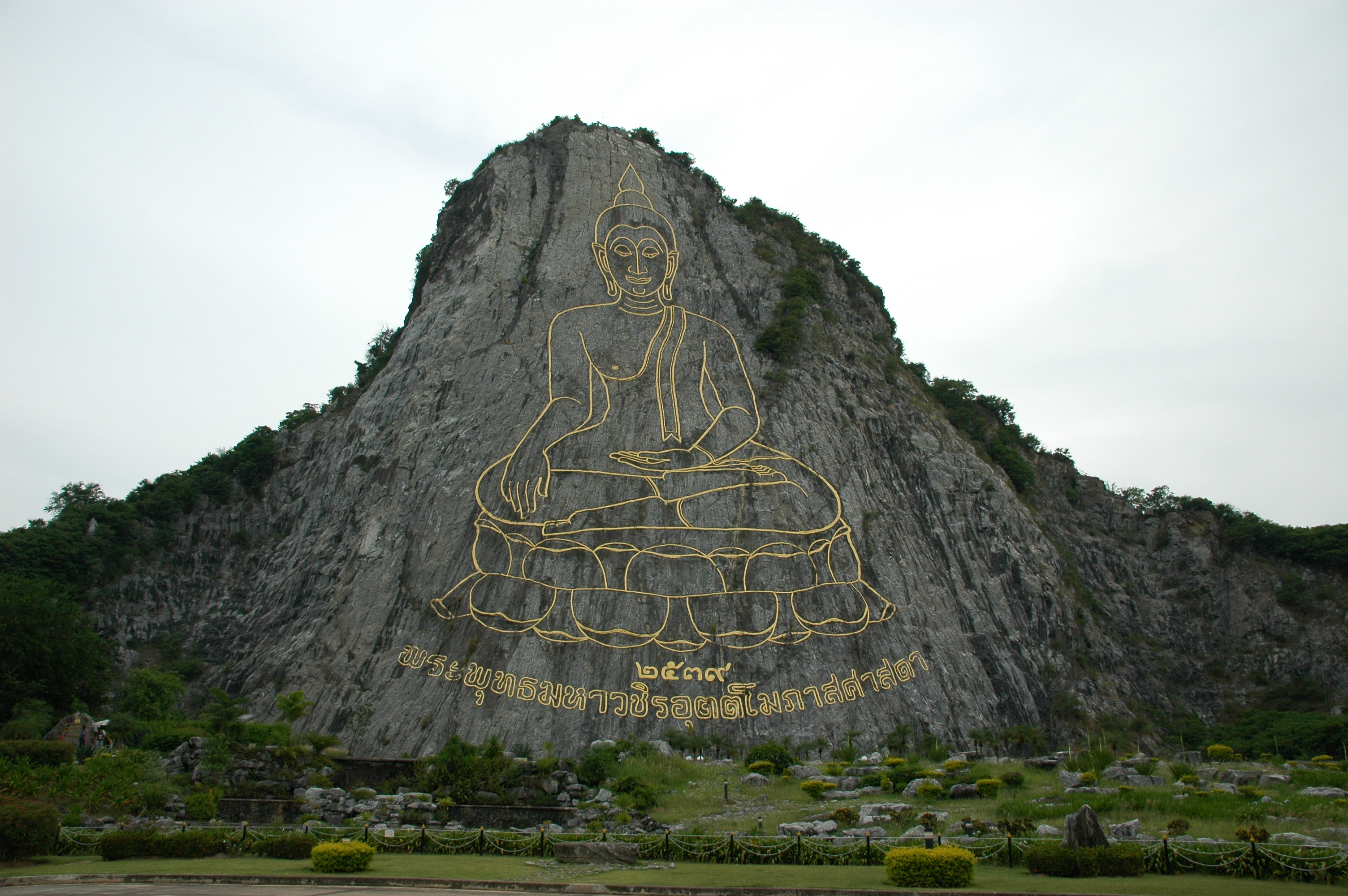 Khao Chinchan, Buddha Hill, Chonburi, Thailand